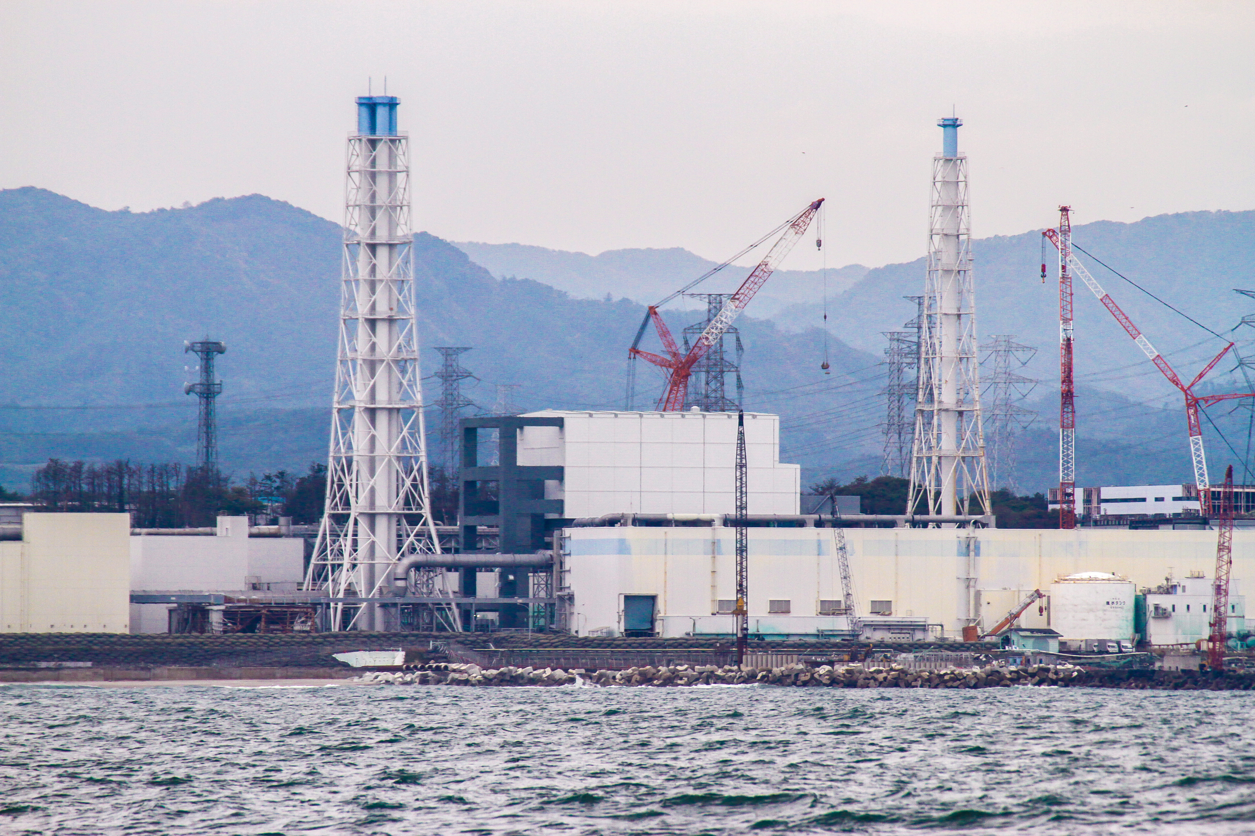 The damaged Fukushima Daiichi Nuclear Power Station as seen during a sea-water sampling boat journey, 7 November 2013. IAEA marine monitoring experts were sent to Japan to observe sea water sampling and data analysis. IAEA/David Osborn